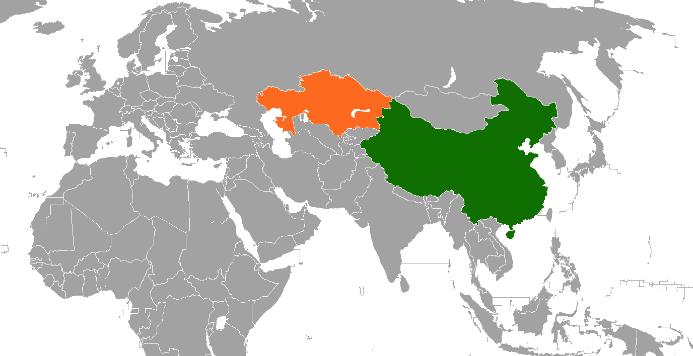 Bilateral locator map of Kazakhstan and the People's Republic of China.